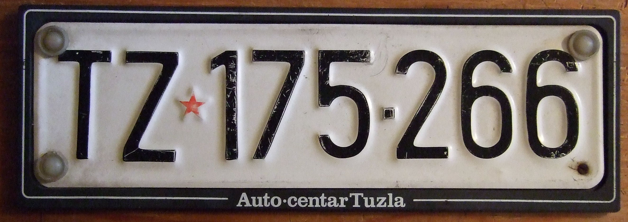 License plate of Yugoslavia since 1961